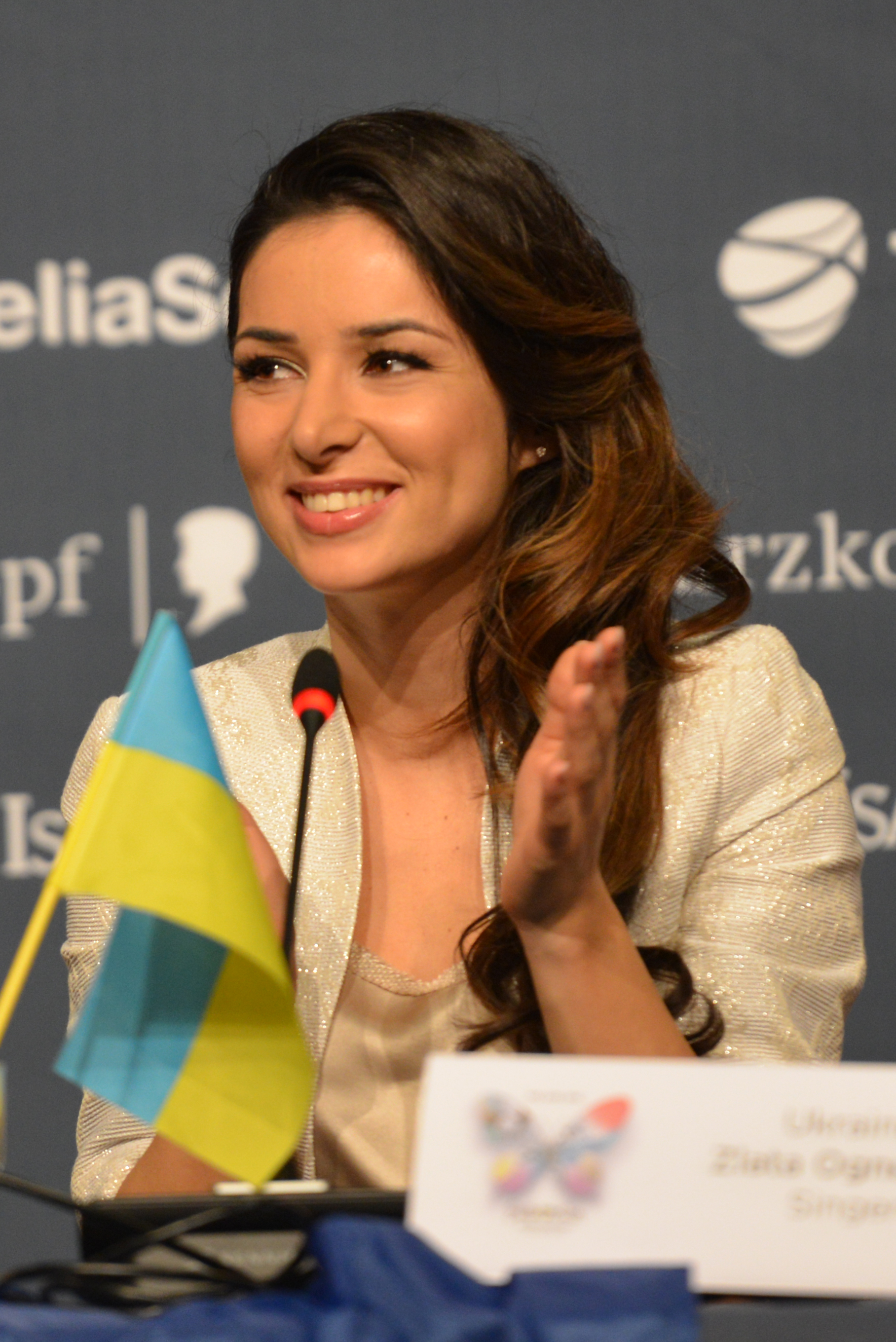 Zlata Ognevich at a press conference during the Eurovision Song Contest 2013 Malmö. (Help translate this text)